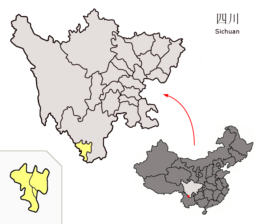 Location of Panzhihua Prefecture (yellow) within Sichuan province of China Map drawn in september 2007 using various sources, mainly : Sichuan province administrative regions GIS data: 1:1M, County level, 1990 Sichuan Counties map from